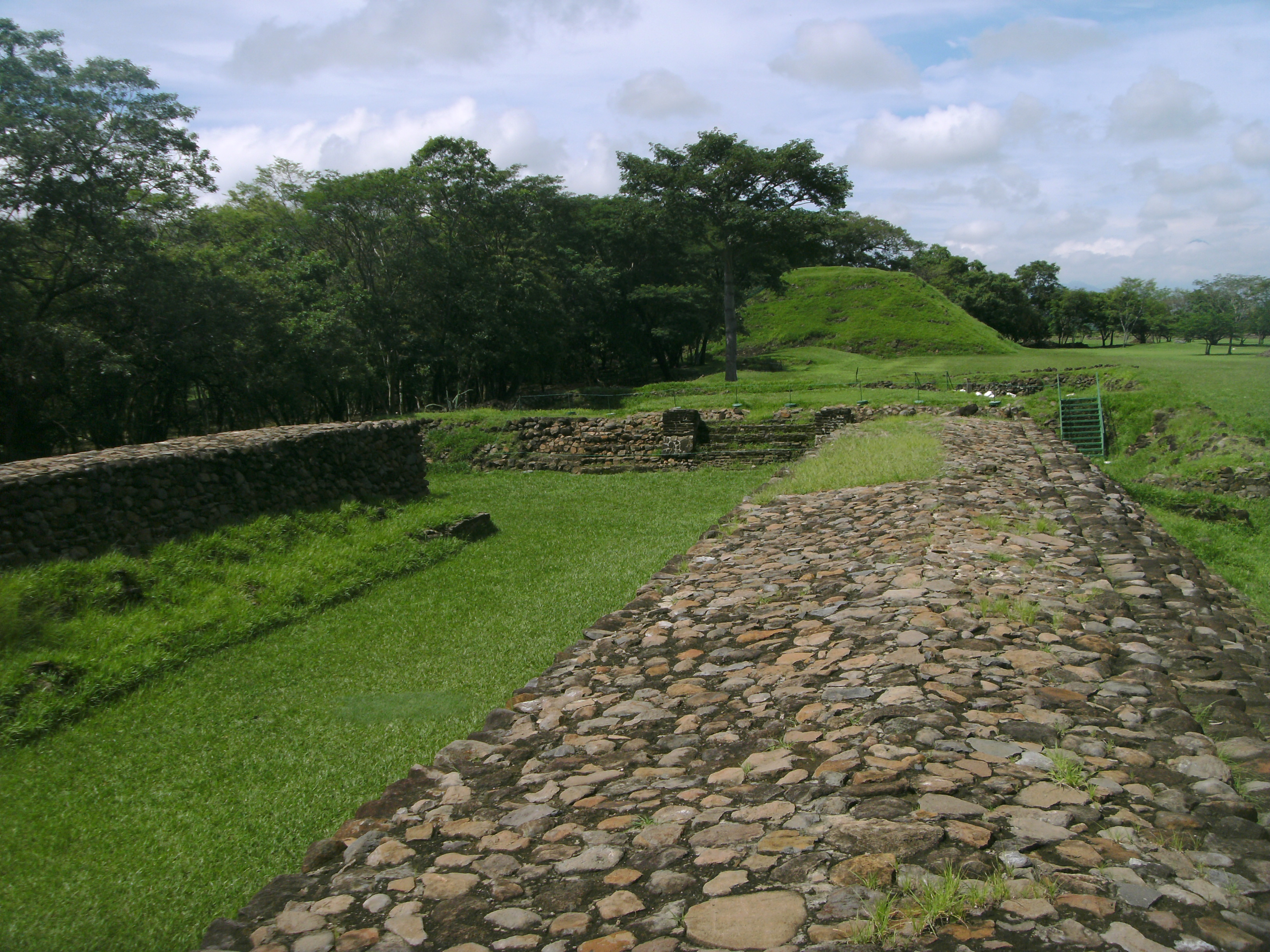 Cihuatán